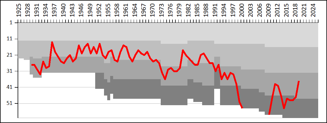 A chart showing the progress of Karlstad BK through the Swedish football league system. Horizontal black lines represent league divisions.